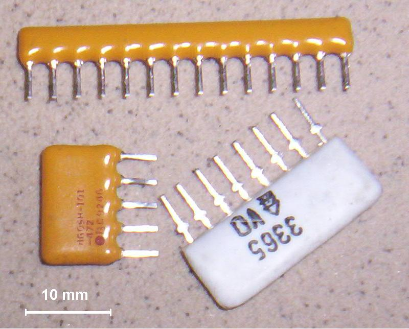 Thin film resistor networks, made from metallic layers on glass substrate